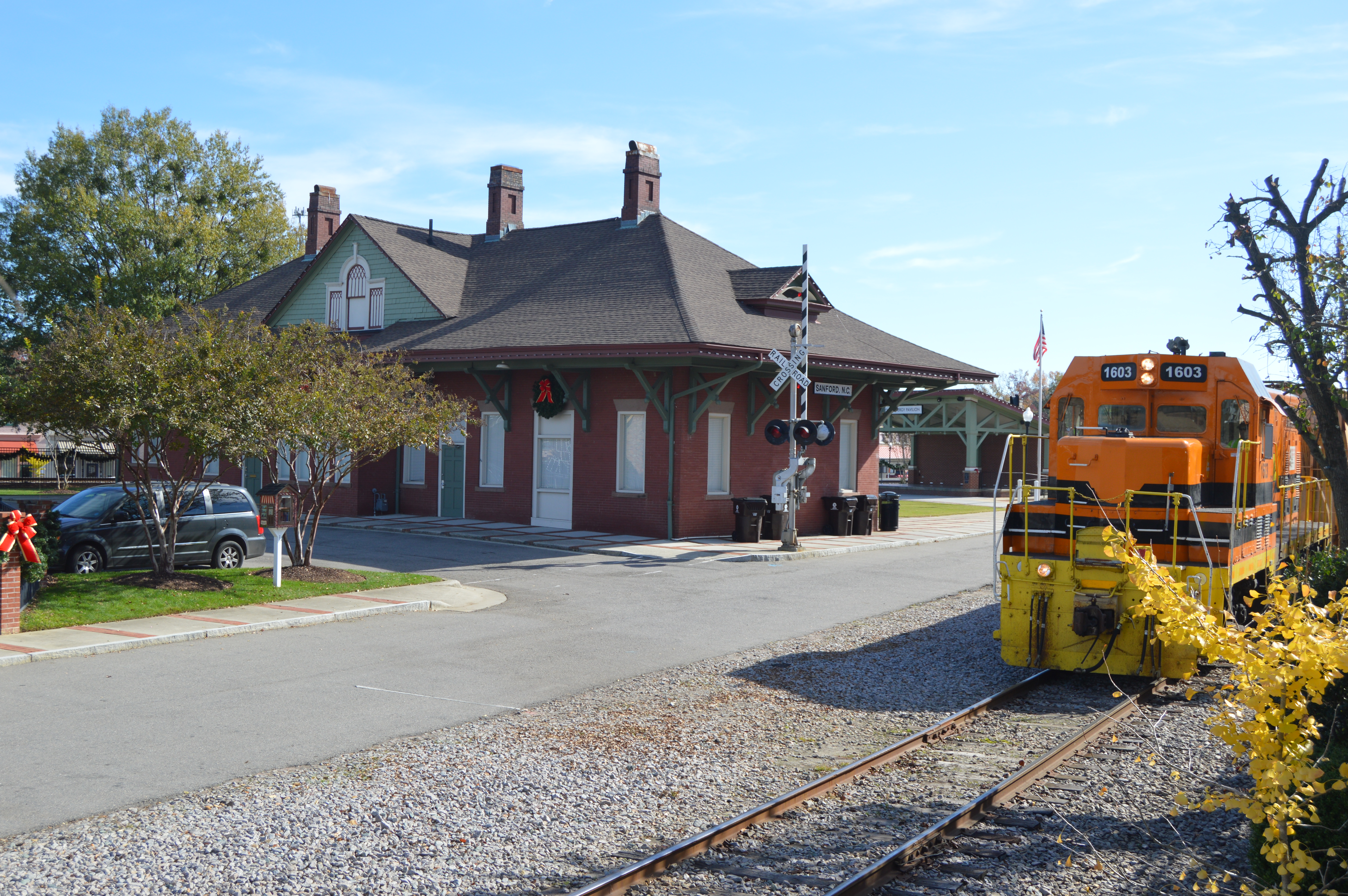 South Carolina Central Railroad #1603, a GP16 pulling a train of grain hoppers, approaches the historic railroad station (built 1900) in downtown Sanford, North Carolina, United States.